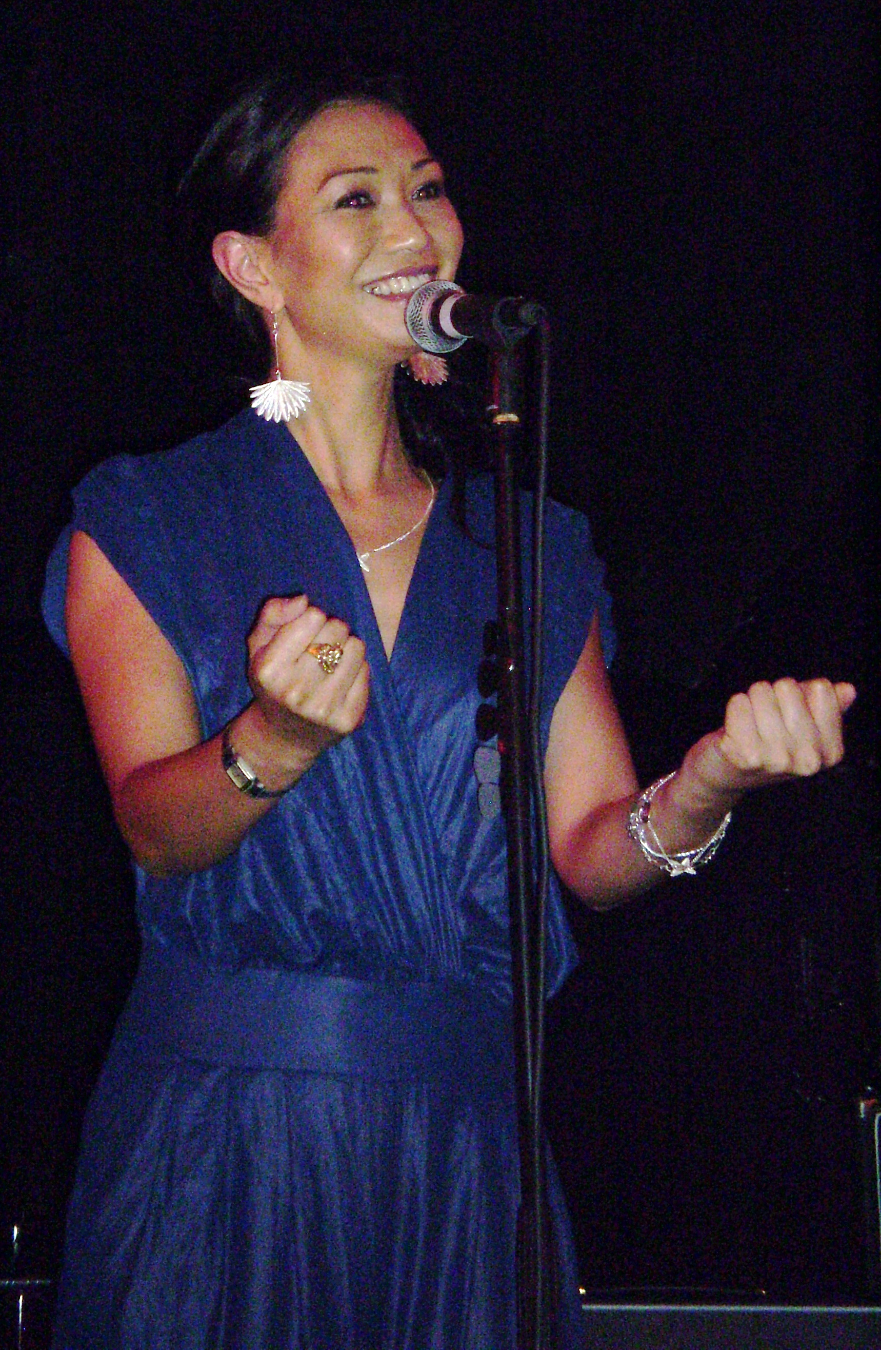 Boh Runga, in concert 2009, at Bar Bodega, Wellington, New Zealand.